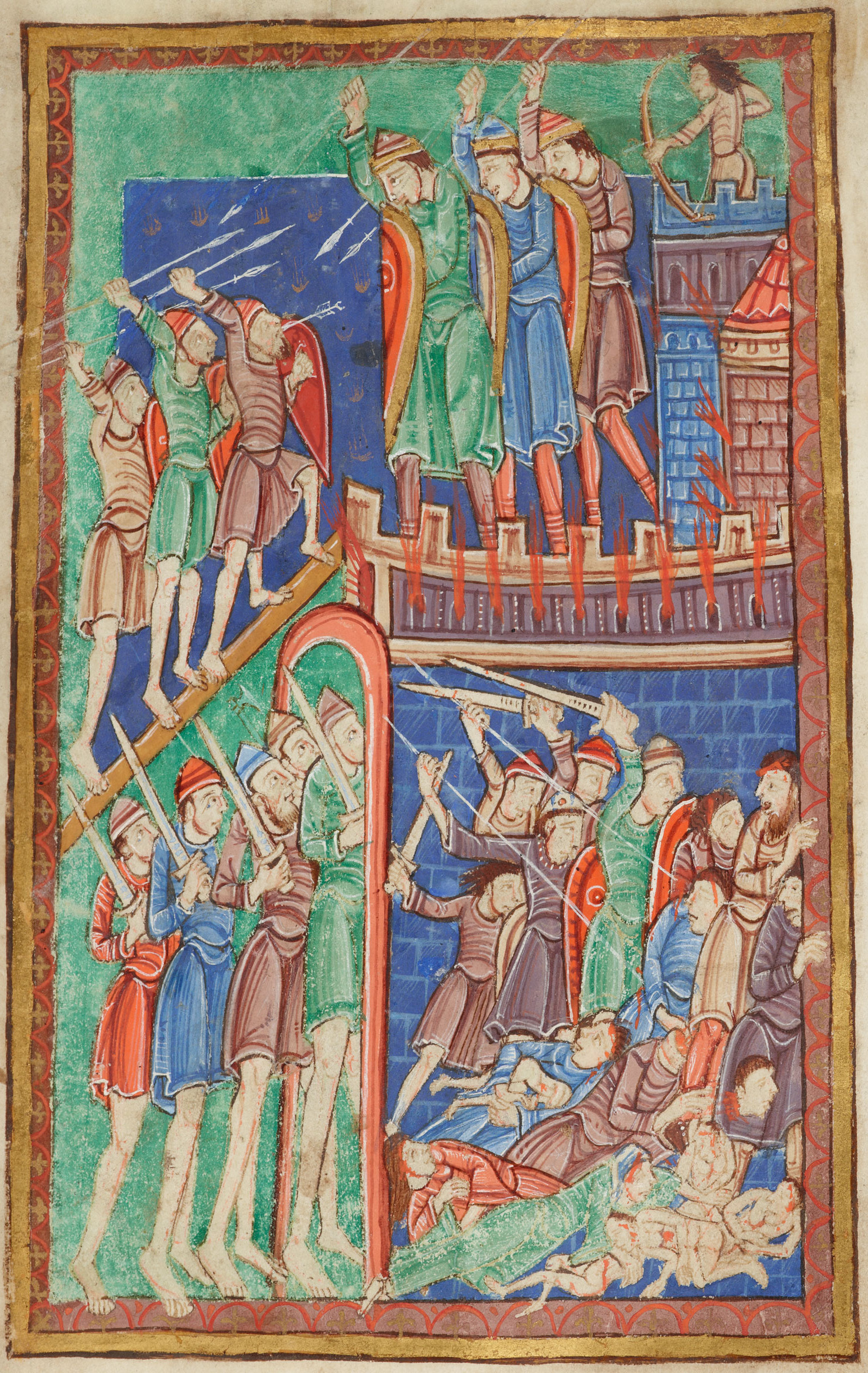 Illustration of Vikings attacking a town, killing men, women, and children, as depicted on folio 10r of Pierpont Morgan Library MS M.736. This image is a cropped version of File:Vikings attacking a town (Pierpont Morgan Library MS M.736, folio 10r).jpg.